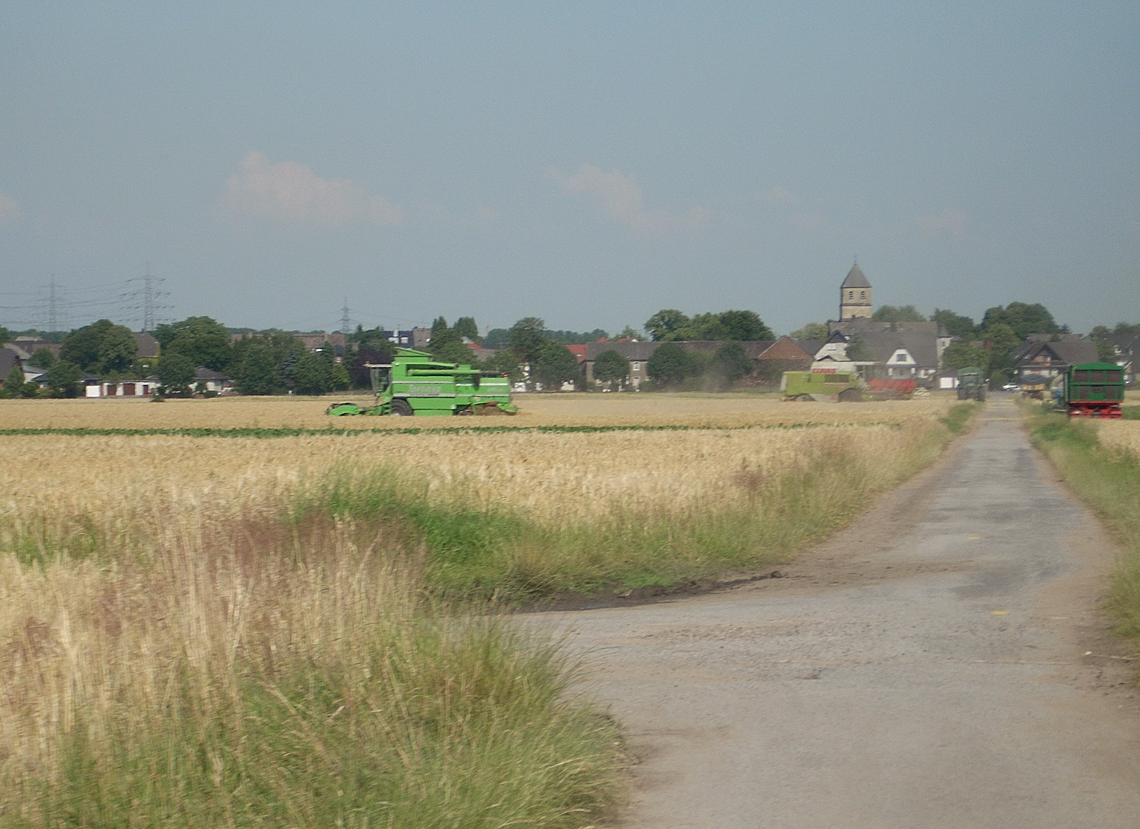 Harvest in Duisburg District of Mündelheim in the summer 2008